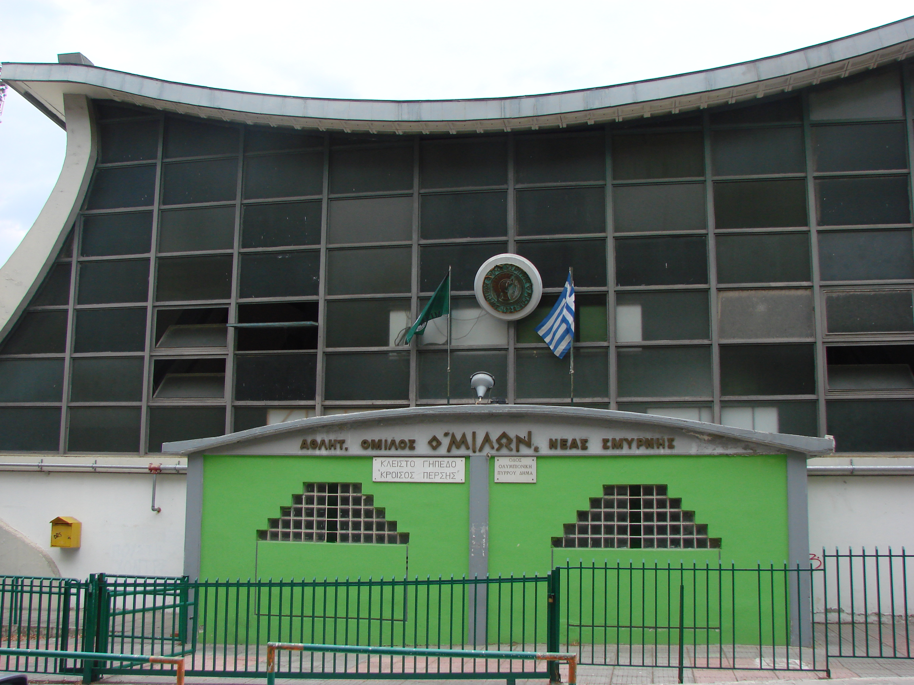 AONS Milon Volleyball Stadium, Nea Smyrni, Greece.